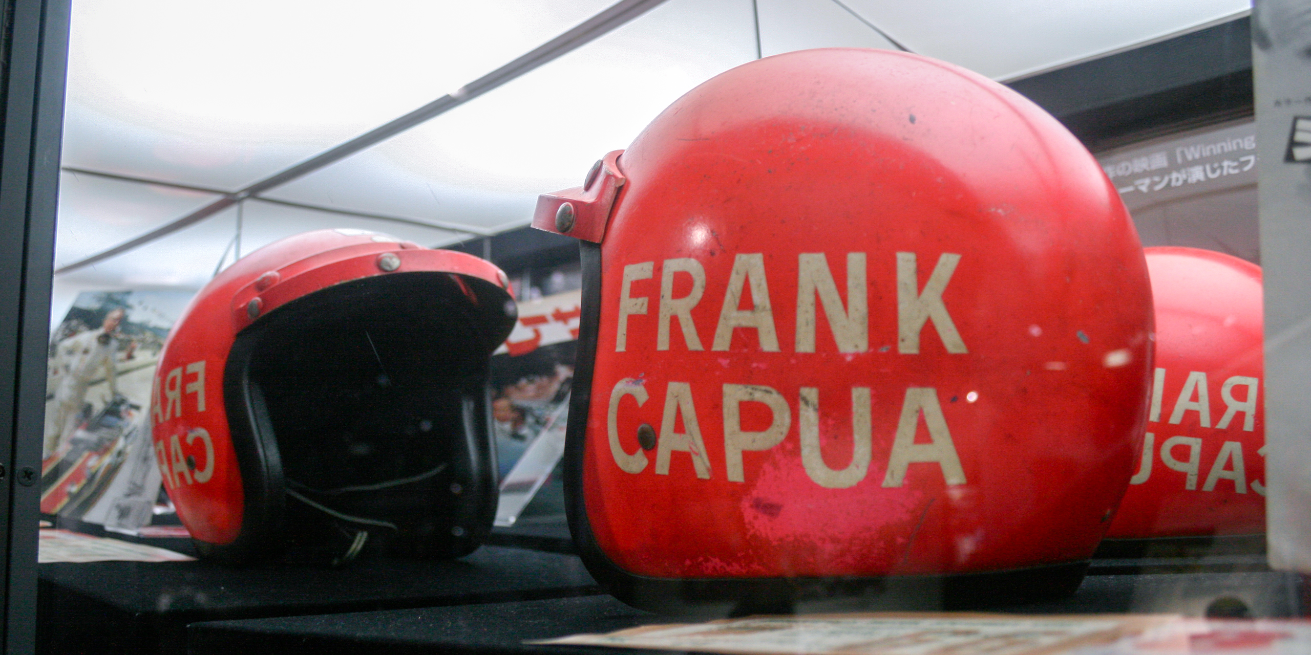 Helmet of Frank Capua, a fictional racer appear in the 1969 film "Winning", starring by Paul Newman.